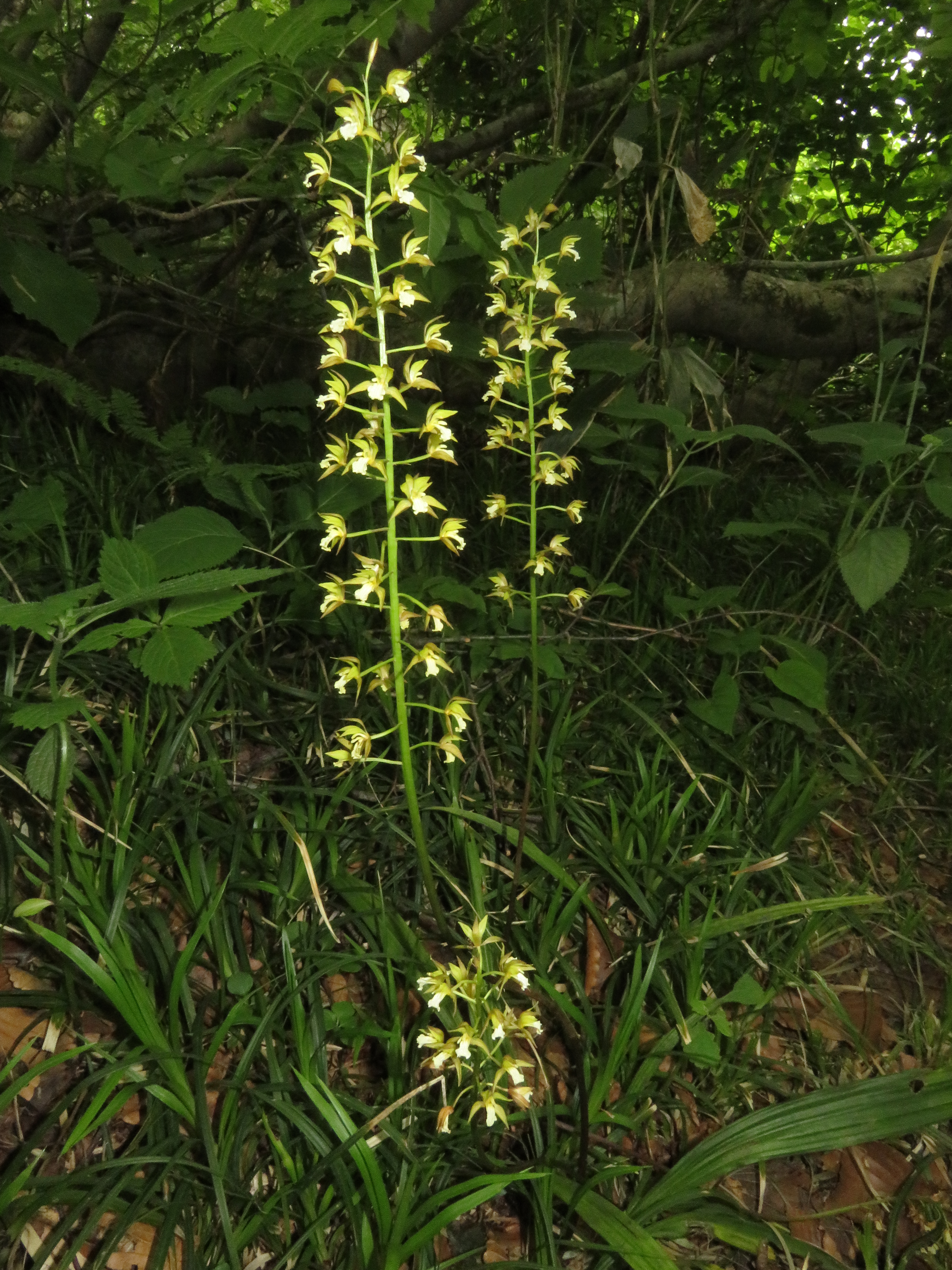 Oreorchis patens, Mount Nekomagatake, Fukushima pref., Japan